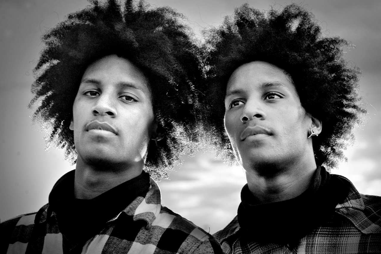 Les Twins during a shoot with photographer Shawn Welling.